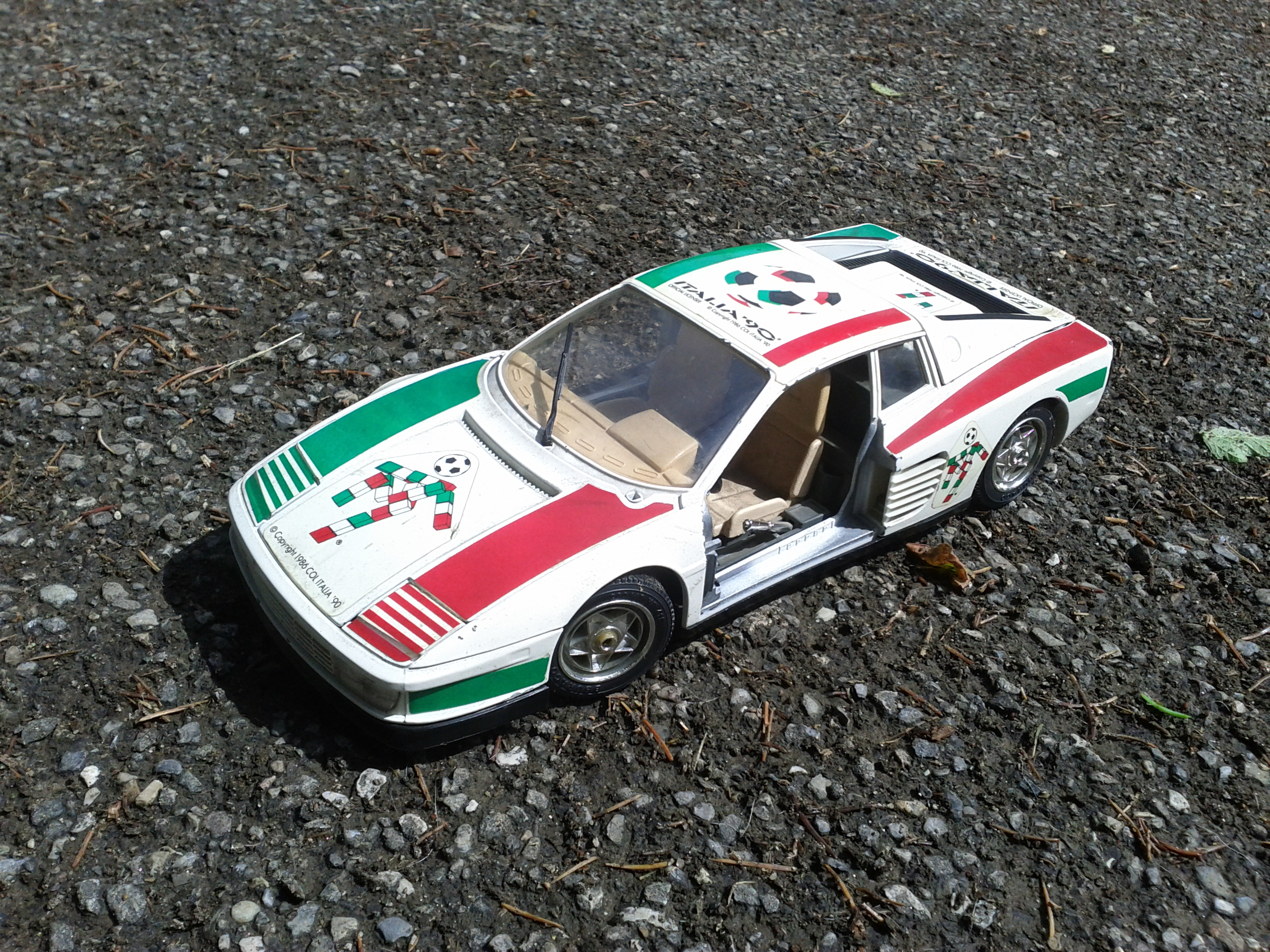 Ferrari testarossa by bburago.1984. the doors are missing. 1:18 scale. steering wheels. made in italy